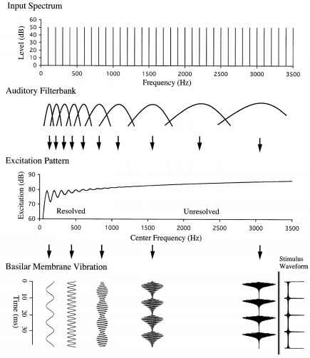 A schematic spectrum, excitation pattern, and simulated basilar membrane vibration for a complex tone with an F0 of 100 Hz and equal-amplitude harmonics. (Description from original author).